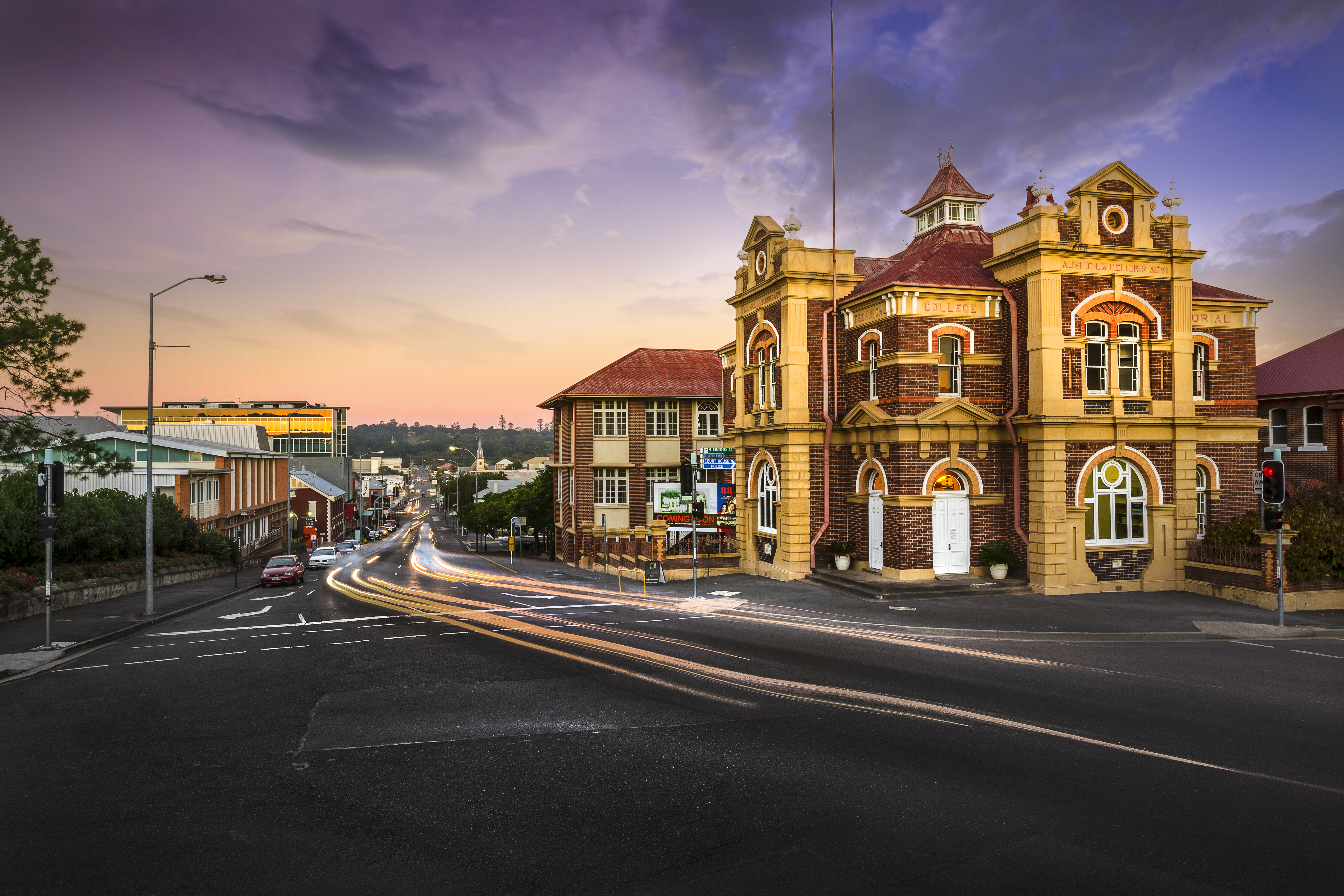 The old Tafe building at Top of Town, Ipswich